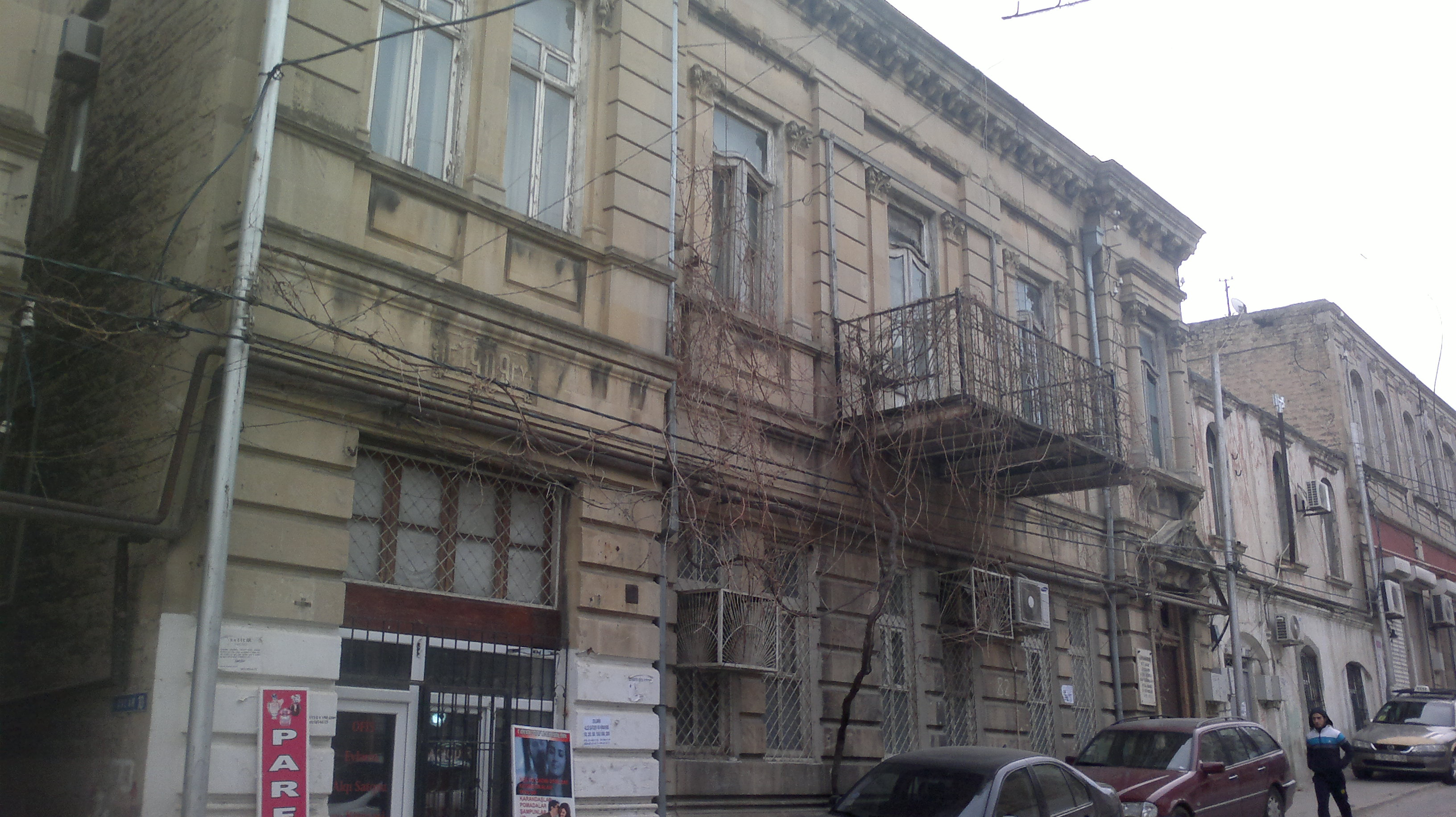 Building on Chingiz Mustafayev Street 82. Built in 1909.